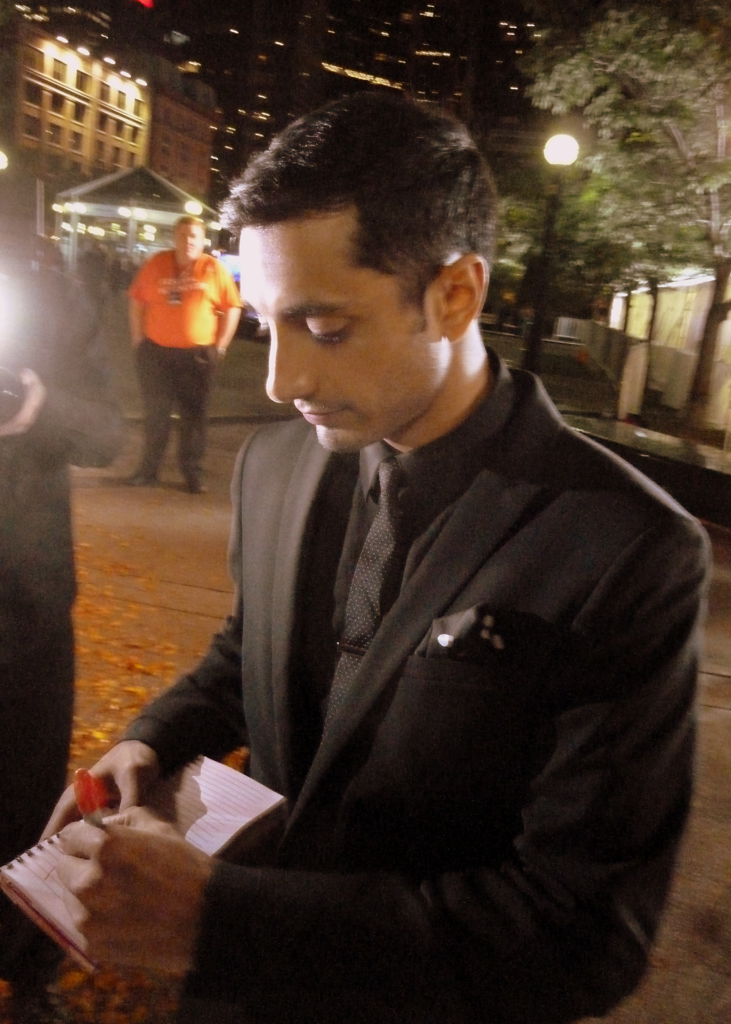 Riz Ahmed at the premiere of The Reluctant Fundamentalist, Toronto Film Festival 2012